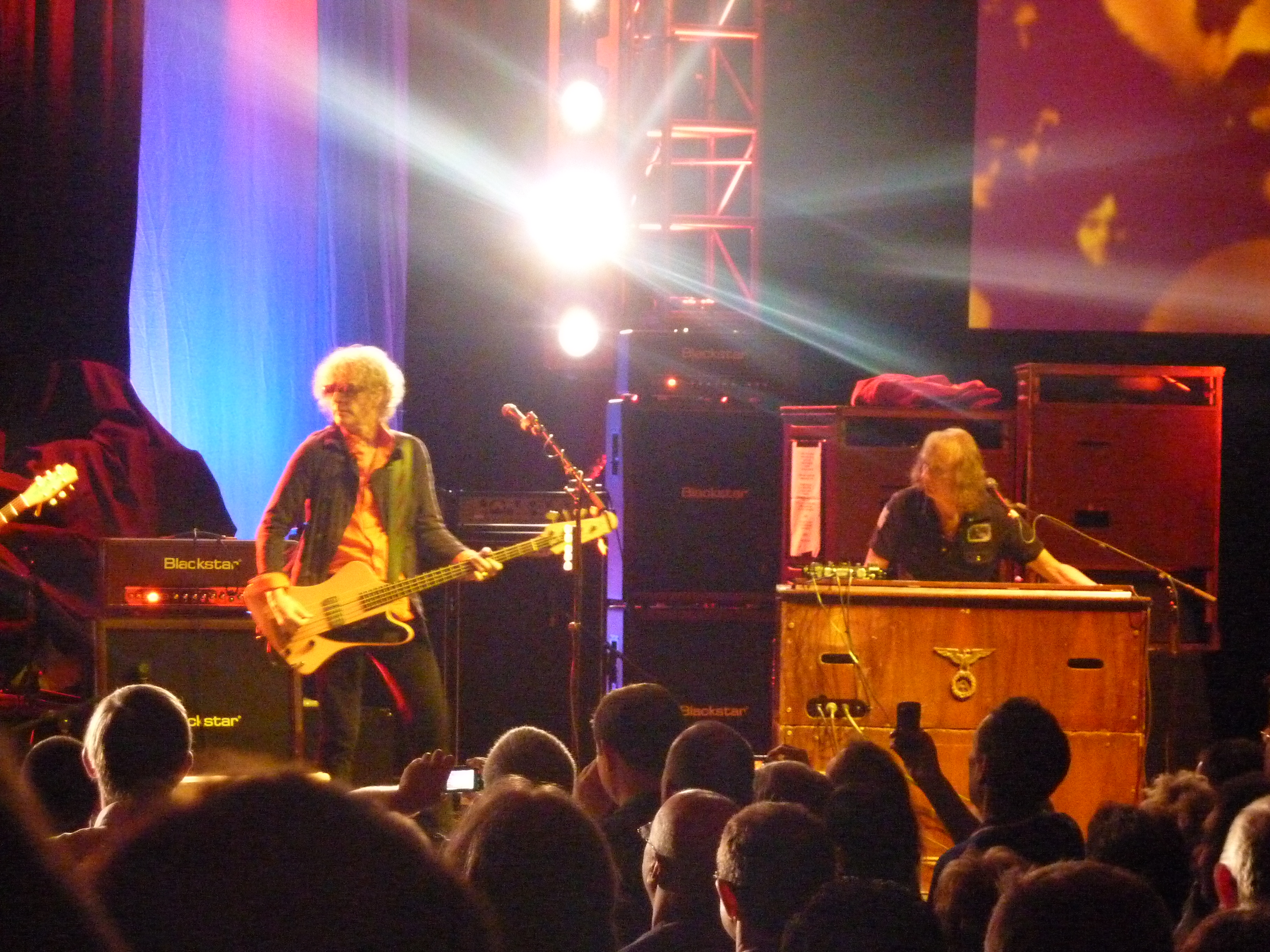 Ian Hunter (left) and Verden Allen performing at a Mott the Hoople reunion gig, Hammersmith Apollo, October 2009